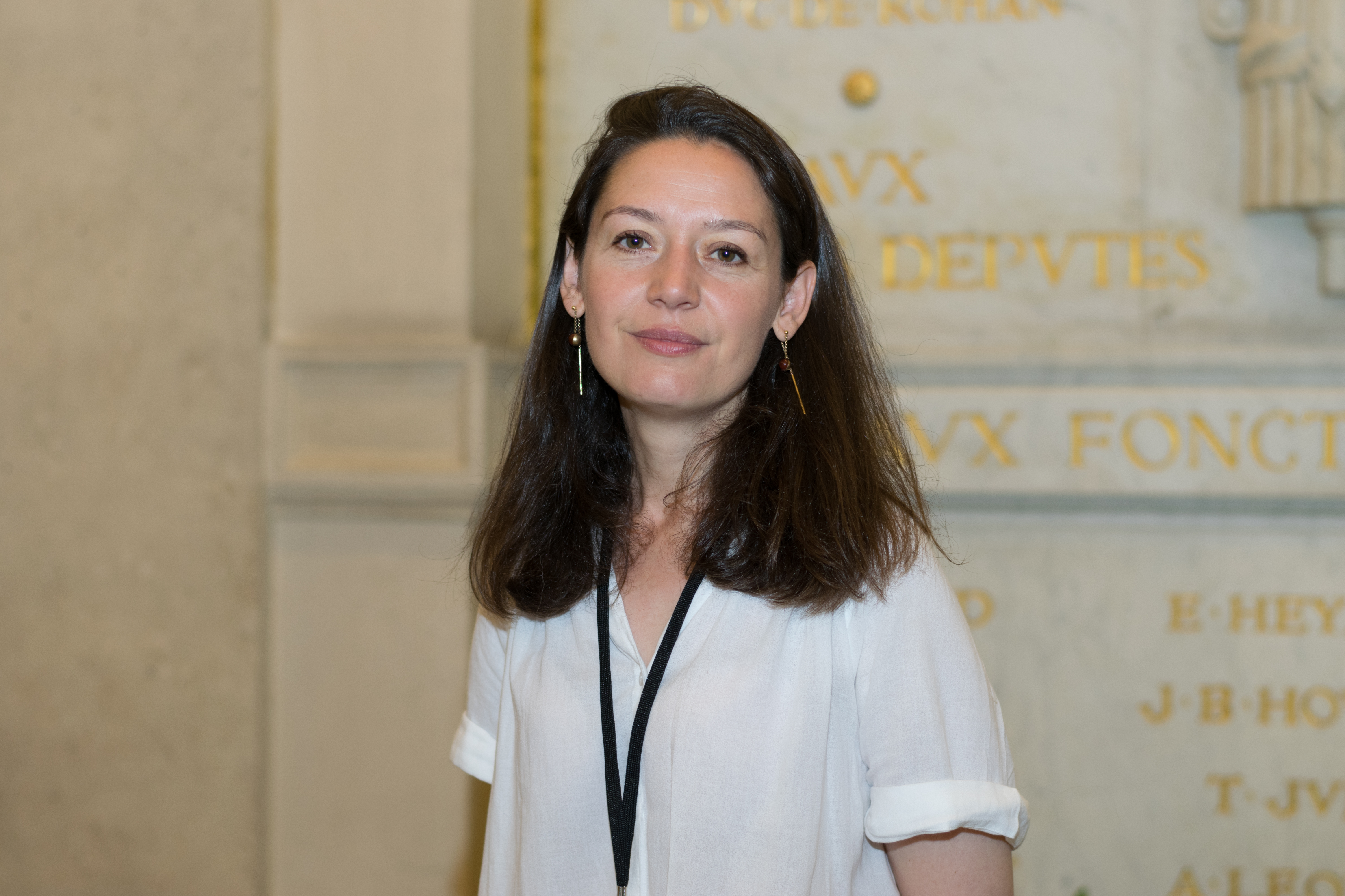 Marie-Pierre Rixain in the salle des Quatres Colonnes of the Palais Bourbon (Paris, France).